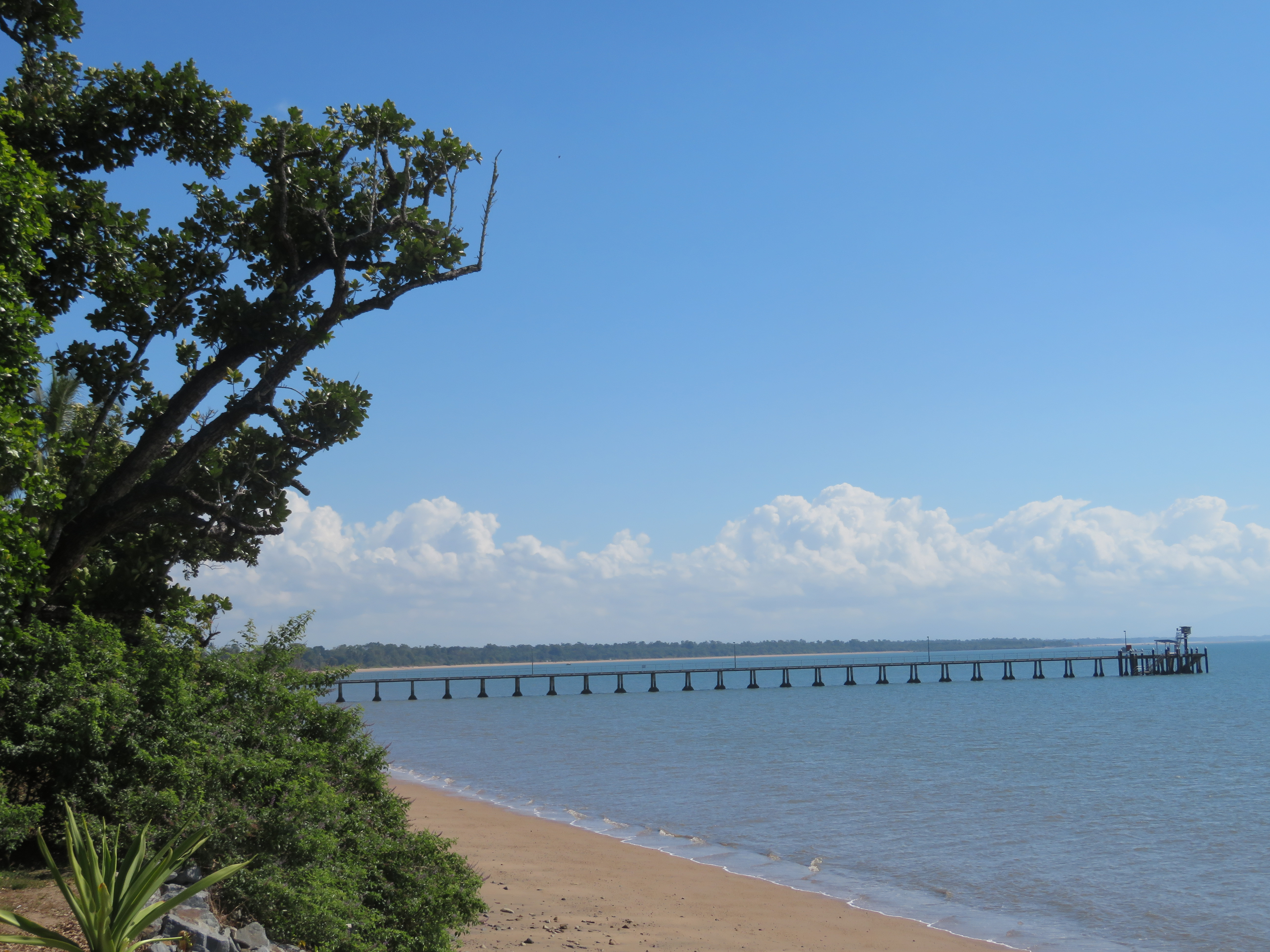 Jetty, Hinchinbrook Channel, Cardwell, Queensland, Australia